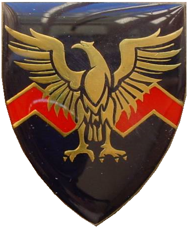 SADF Transvaal Staatsartillerie Regiment emblem